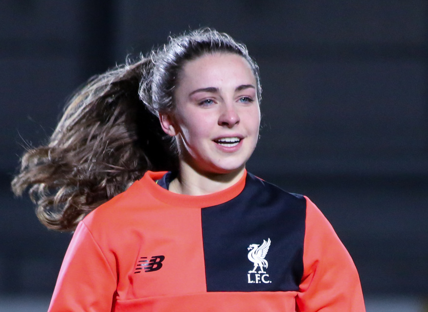 Arsenal LFC v Liverpool LFC, 4 May 2017